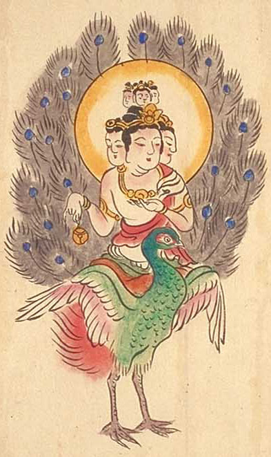 Kumaraten, Buddhist deities of Japan